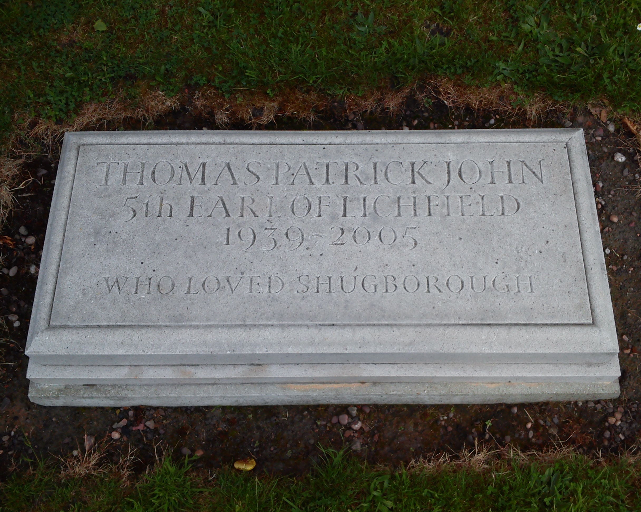 Colwich, Staffordshire - St Michael and All Angels Church - memorial stone outside the church to Thomas Patrick Anson, 5th Earl of Lichfield, placed by his partner Lady Annunziata Asquith